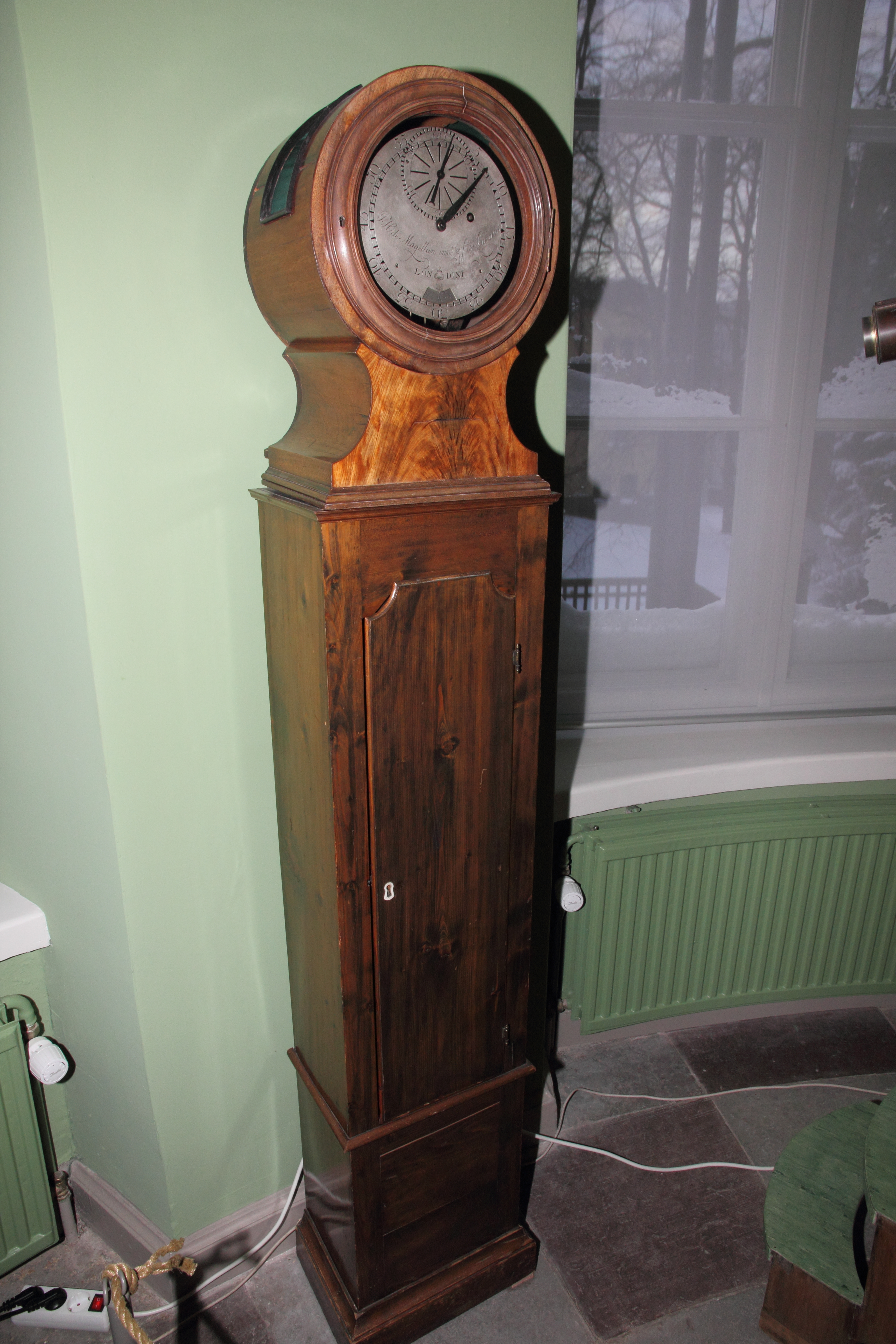 Astronomical pendulum clock from 1760s-1780s made by John Hyacinth de Magellan preserved in Helsinki observatory western rotunda.